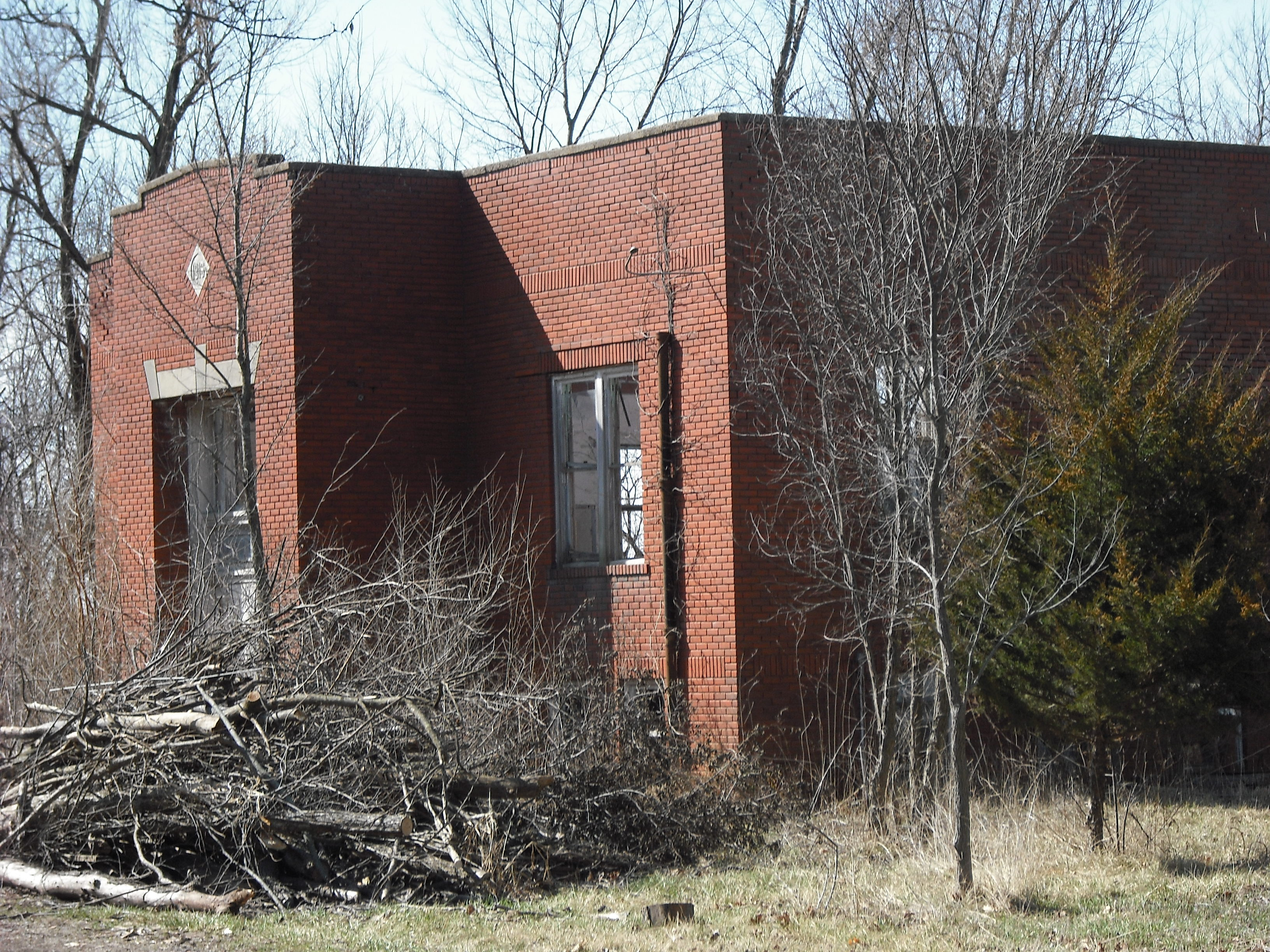 An old school building located in LeLoup, Kansas.